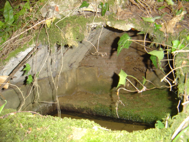 Arthez - houn Caubin - reservoir